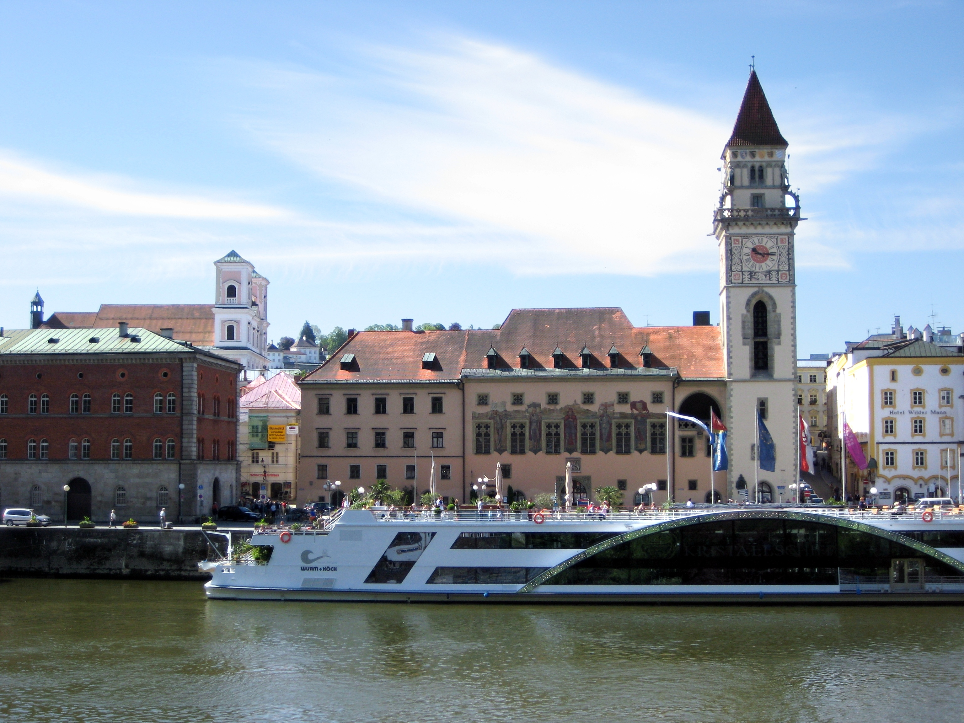 Passau, Town hall